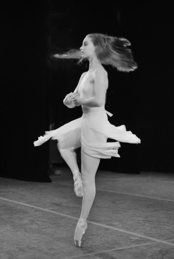 New York City Ballet in Amsterdam, Suzanne Farrell